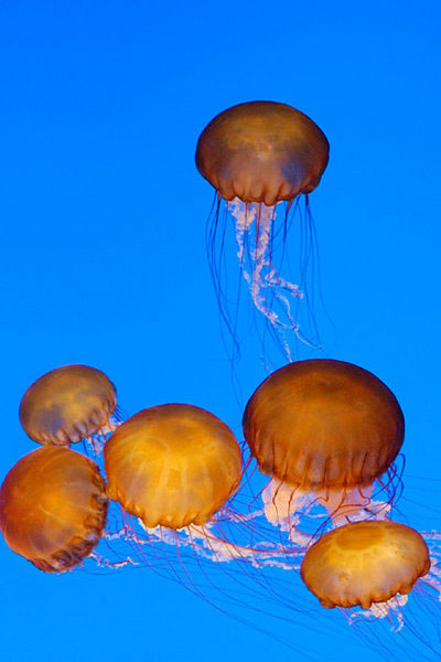 Jellyfish (Chrysaora fuscescens)